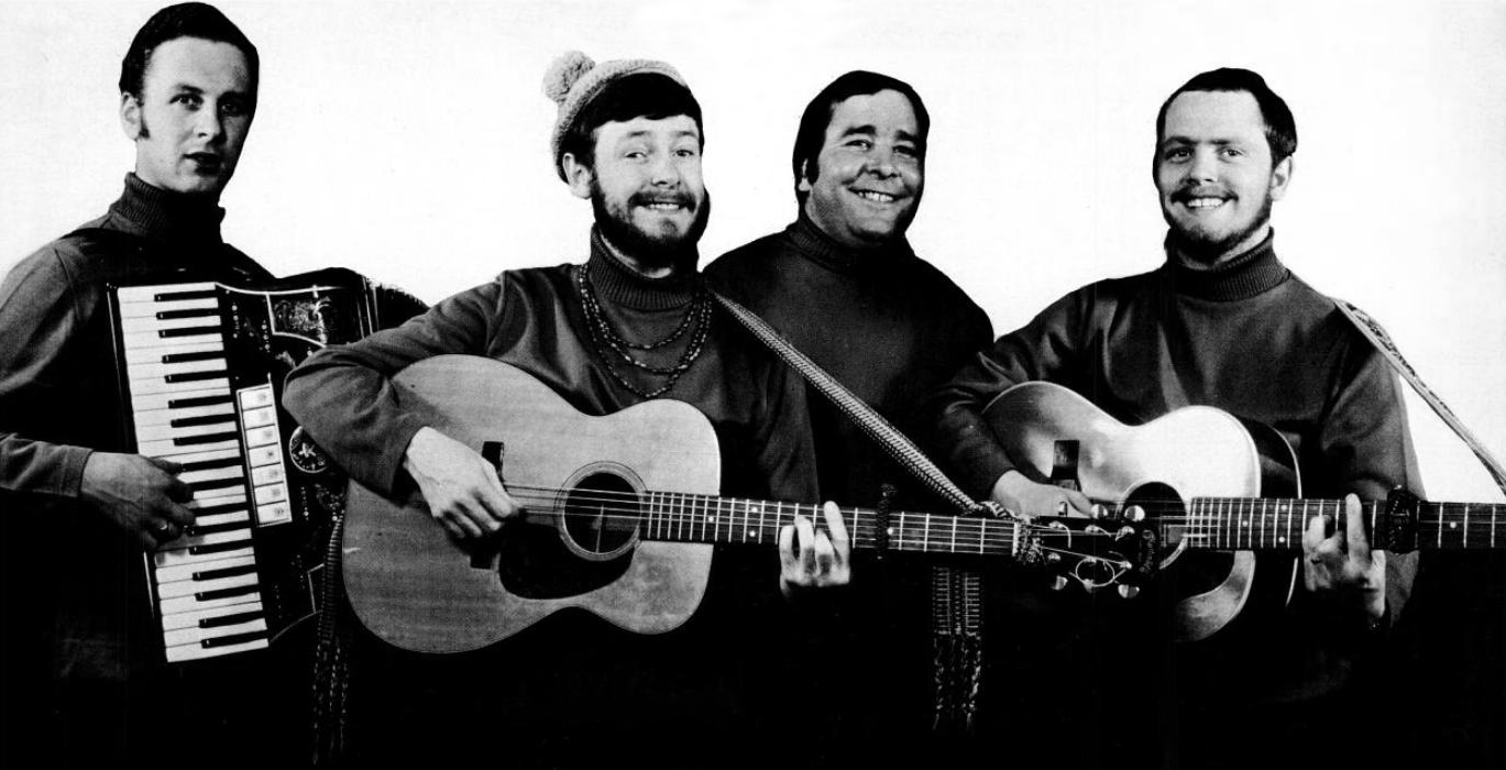 Trade ad for The Irish Rovers's single "Whiskey on a Sunday".To better adapt it to his respective Wikipedia article, the ad was cropped and cleaned in a graphics editing program. The original can be viewed at the source below.